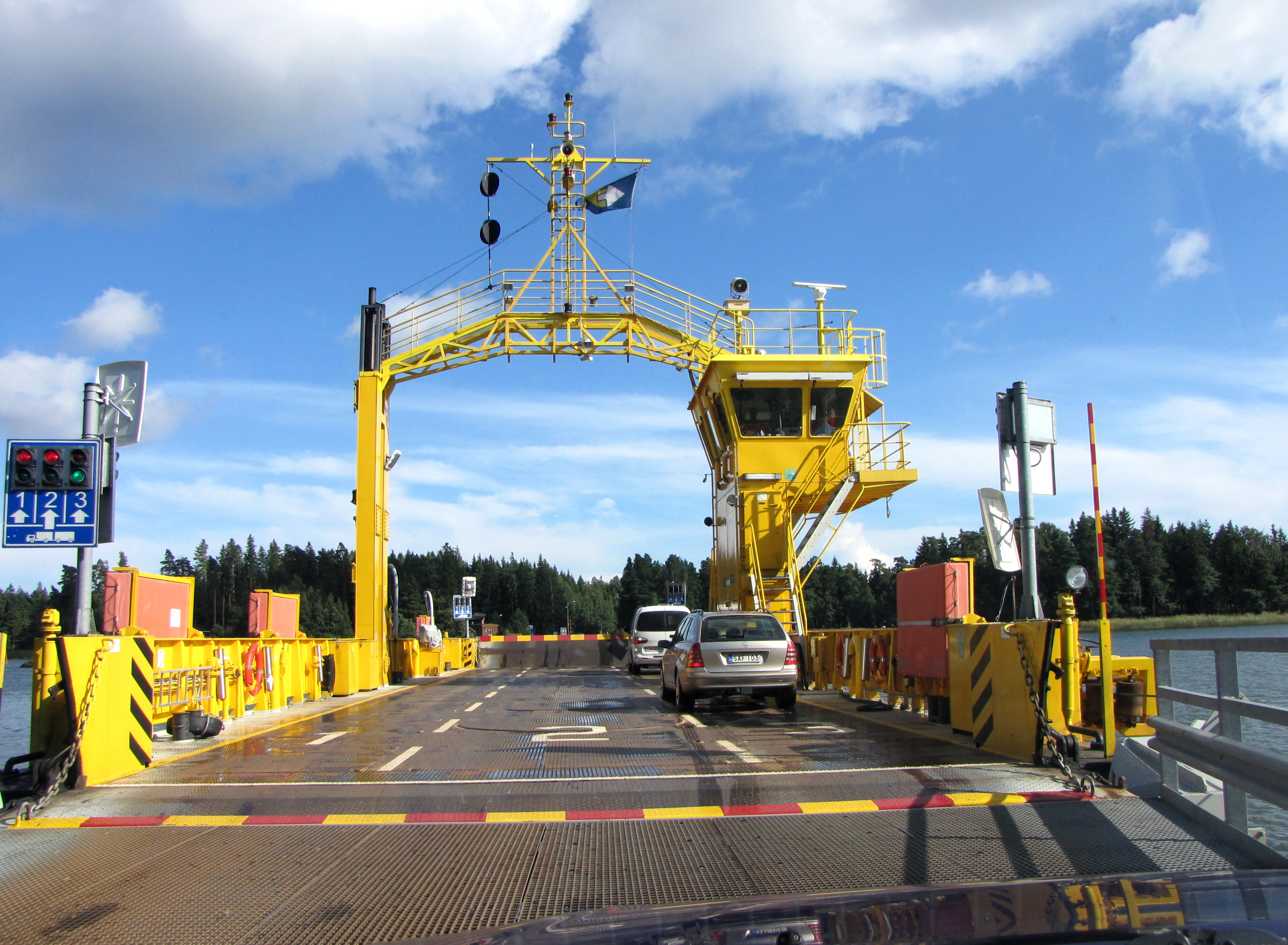 Pellinki cable ferry.